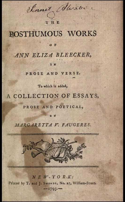 Title page of The Posthumous Works of Ann Eliza Bleecker, a book compiling works of Ann Eliza Bleecker with additional material written by Margaretta V. Faugère (nee Margaretta Van Wyck Bleecker), published in 1793.